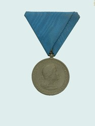 Hungarian Military Order „Commemorative Medal for the Liberation of North Transylvania”